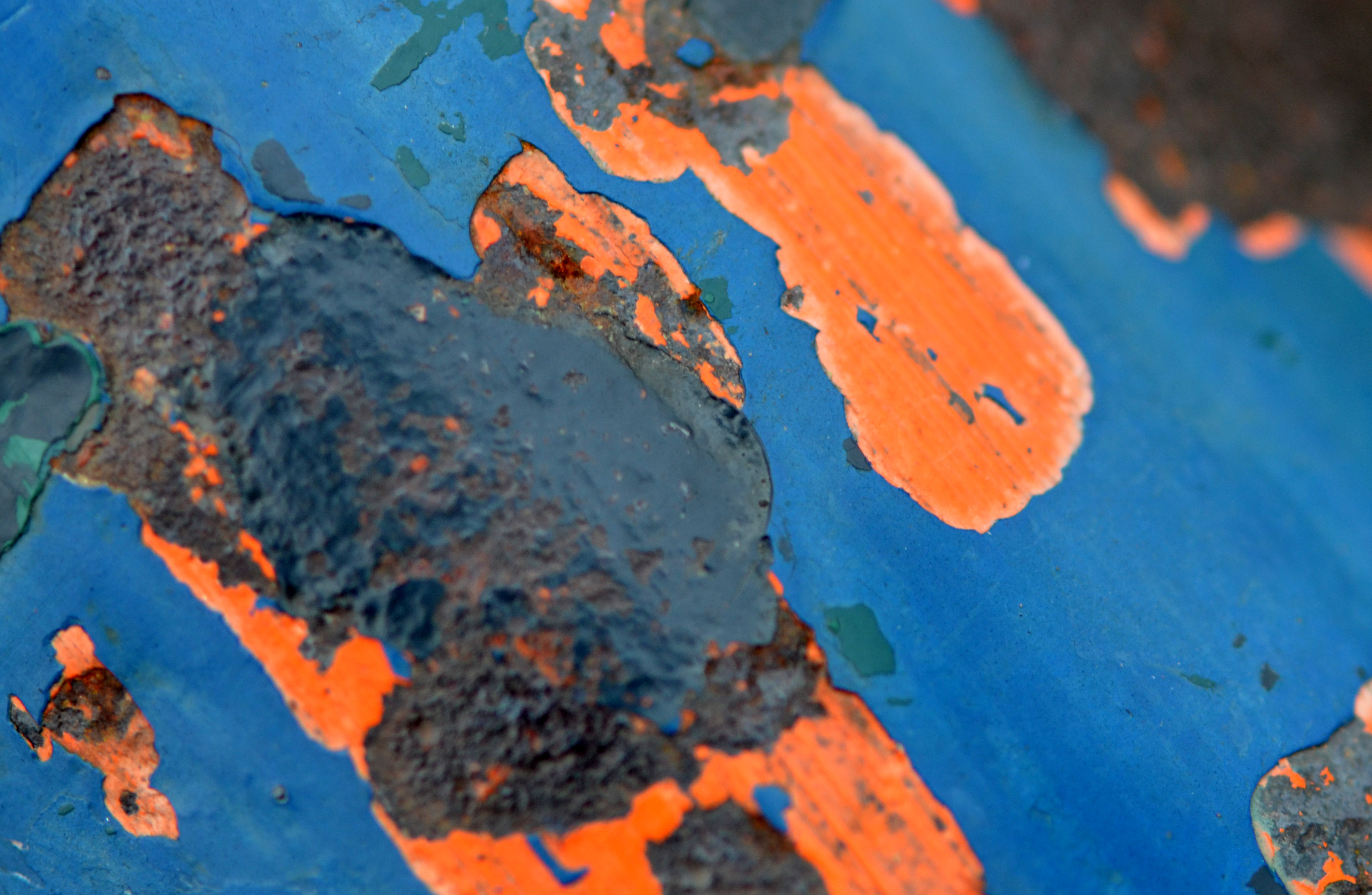 Coats of paint, which paint the rust red lead (orange) on a bridge railing (above the Mid-Deule near the old lock the bar in Lille (north of France). Stripping of this type of paint is one of the sources of air pollution or water with lead. Lead is neurotoxic, and induced poisoning.